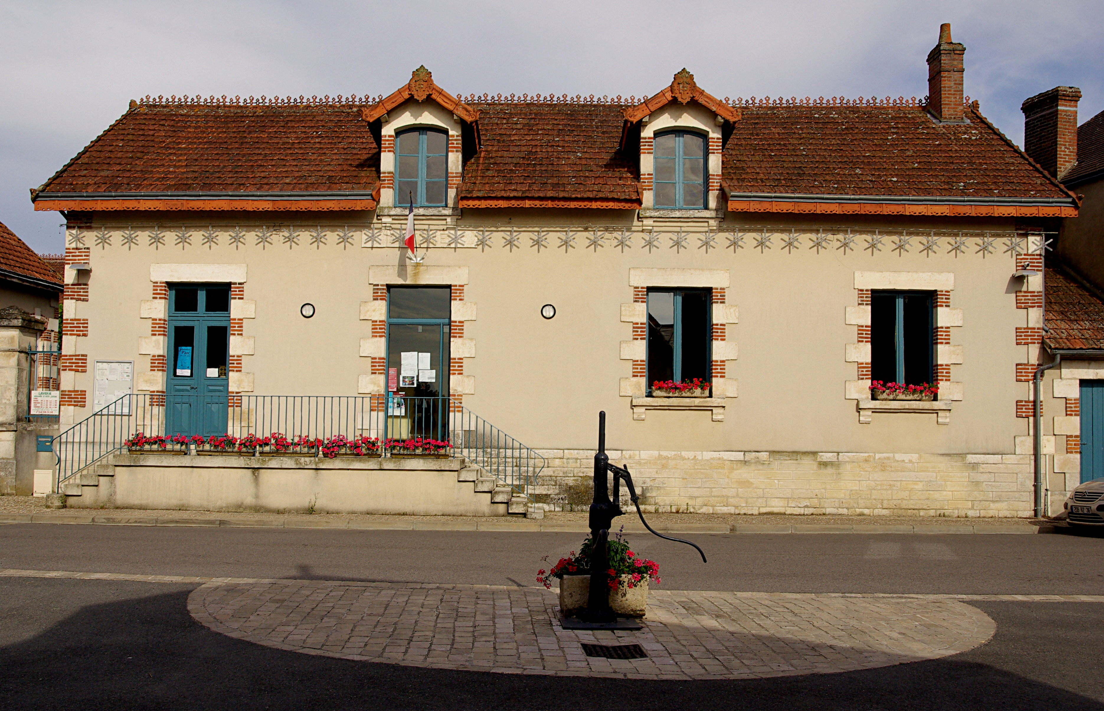 Town hall of Rosnay Indre 36